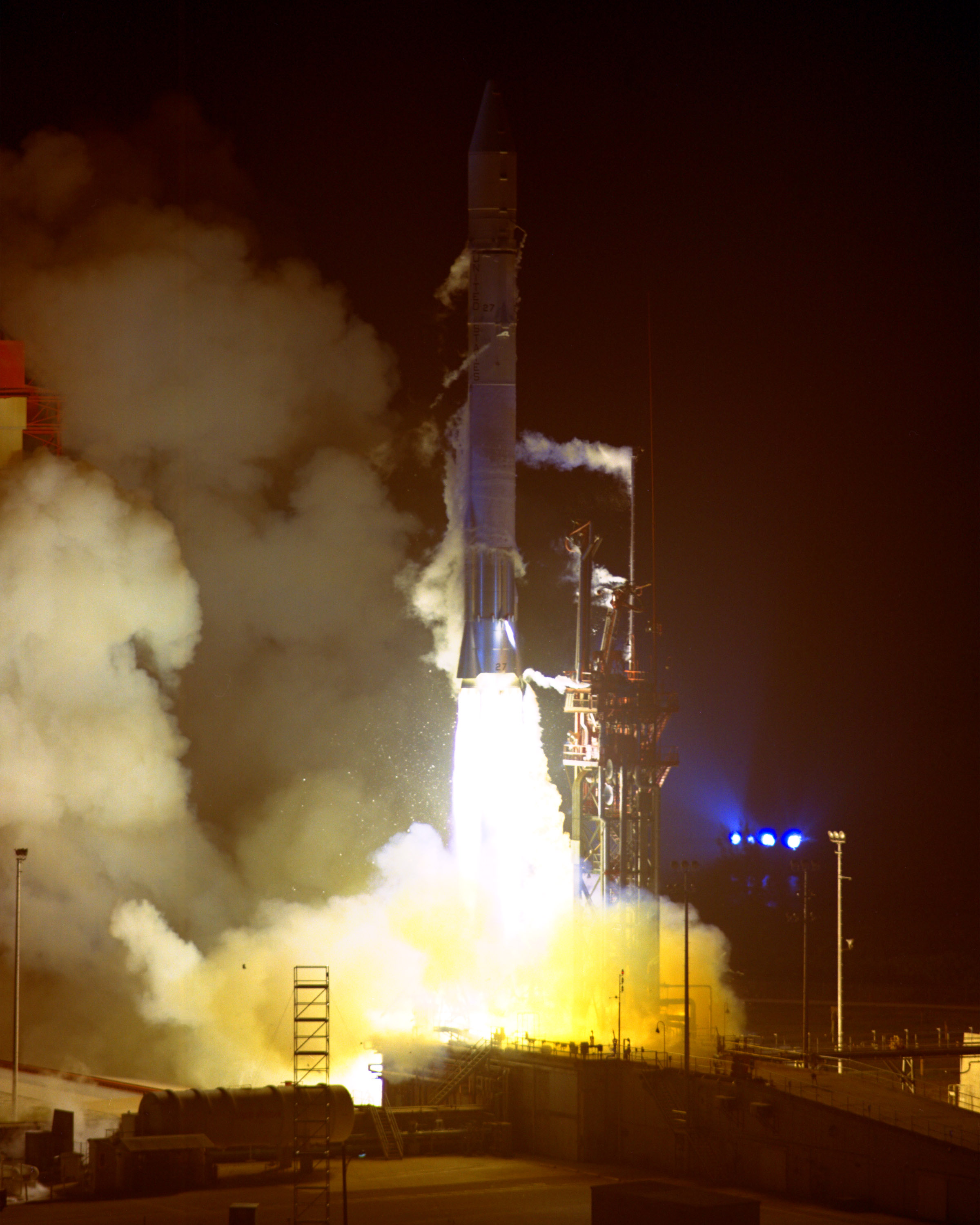 Launched on March 2, 1972, Pioneer 10 was the first spacecraft to travel through the asteroid belt, and the first spacecraft to make direct observations and obtain close-up images of Jupiter. Pioneer 10, now more than 7.5 billion miles from Earth, is the farthest spacecraft in the solar system.